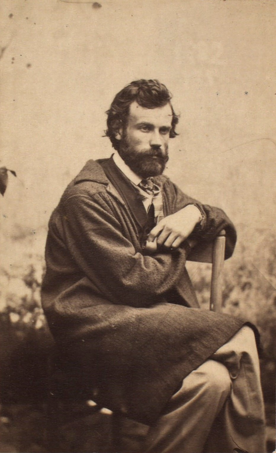 Lauritz Terpager Malling Prior (1840-1879), Danish sculptor